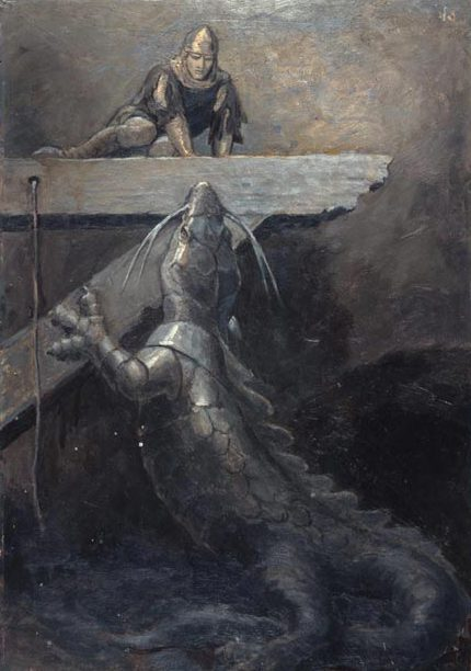 Katherine Pyle. Dragon rearing up to reach medieval knight on ledge, 1932 Published in Charlemagne & His Knights by Katharine Pyle, J.B. Lippincott Co., 1932, p. 80 Oil on board LC-USZ6-2277; LC-USZC4-9476; LC-DIG-ppmsc-02837 (42)